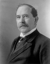 George Turner, US Senator from Washington from 1897 to 1903. A Silver Republican at that time, he later ran unsuccessfully for governor as a Democrat.